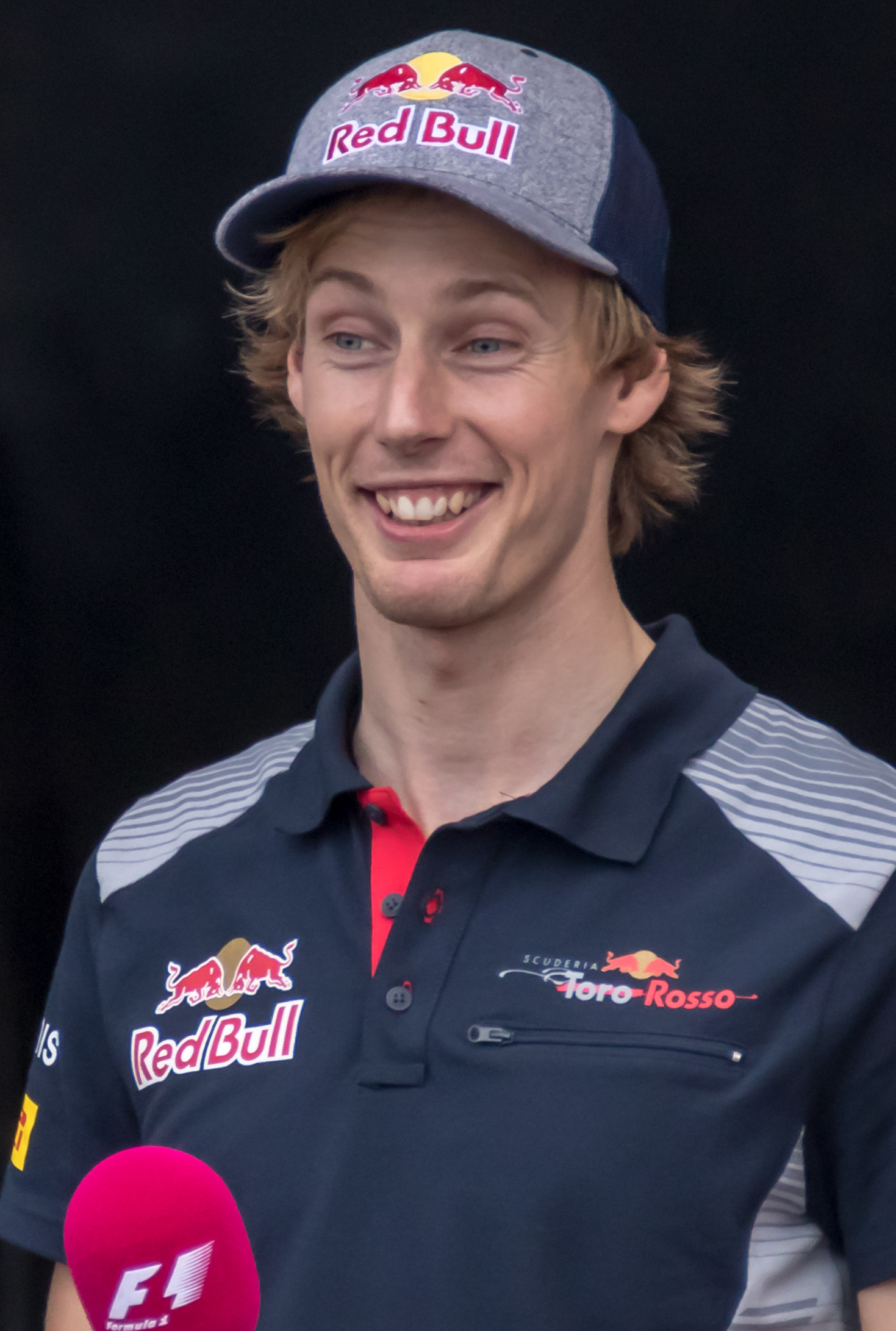 Brendon Hartley and Daniil Kvyat